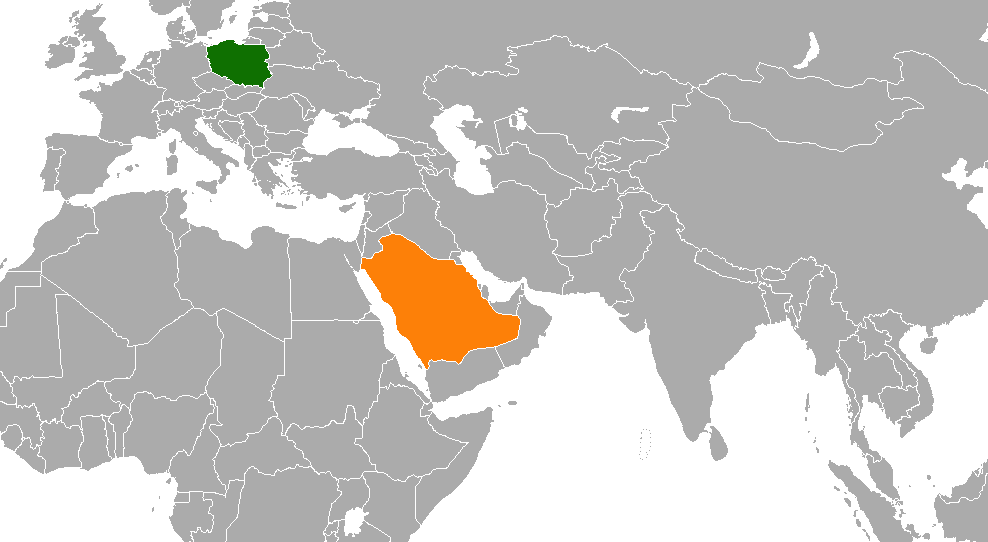 Map showing the locations of both Poland and Saudi Arabia